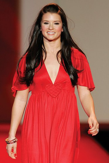 Danica Patrick at the 2007 Red Dress Collection for the Heart Truth campaign